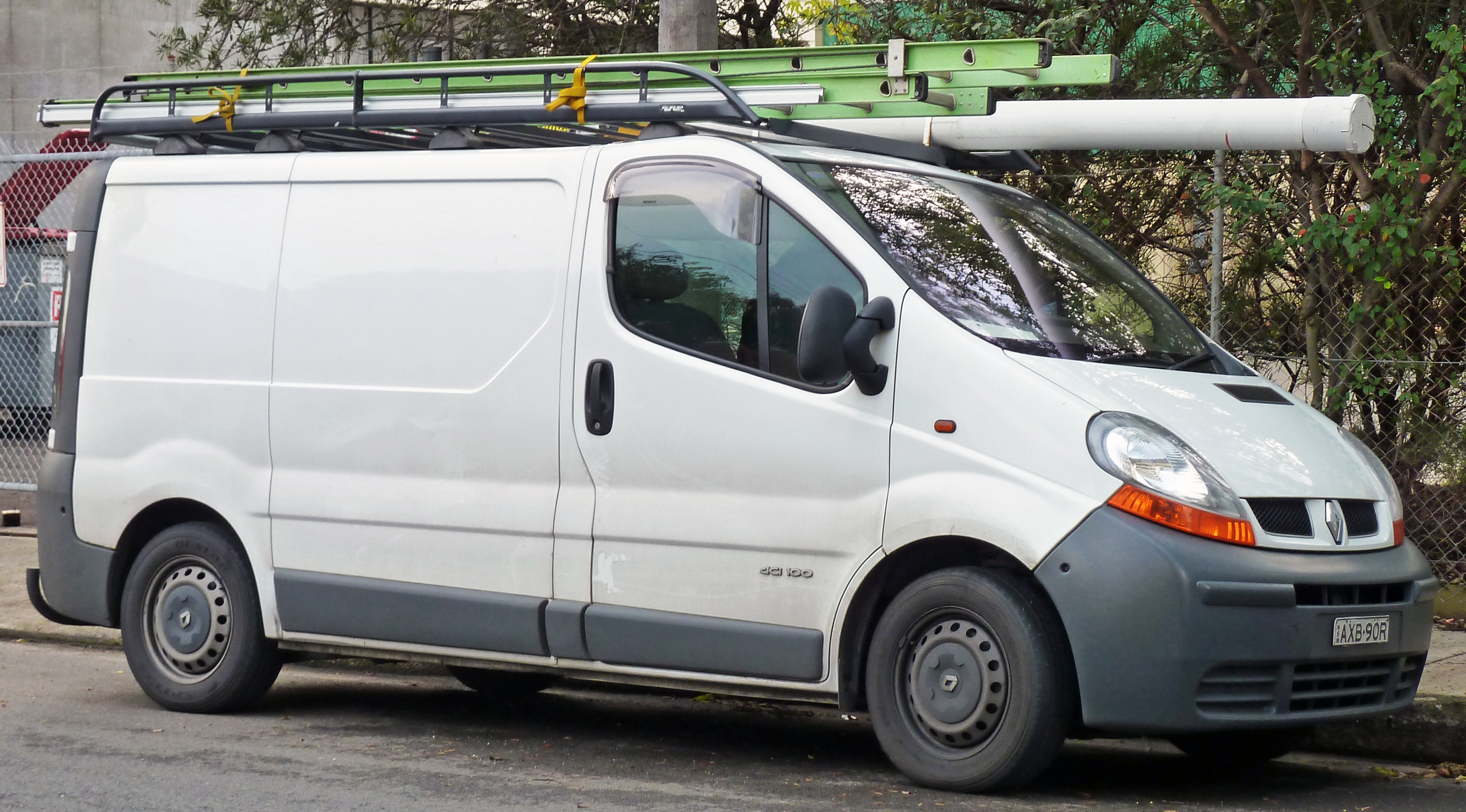 2004–2007 Renault Trafic (X83) low roof van. Photographed in Erskineville, New South Wales, Australia.